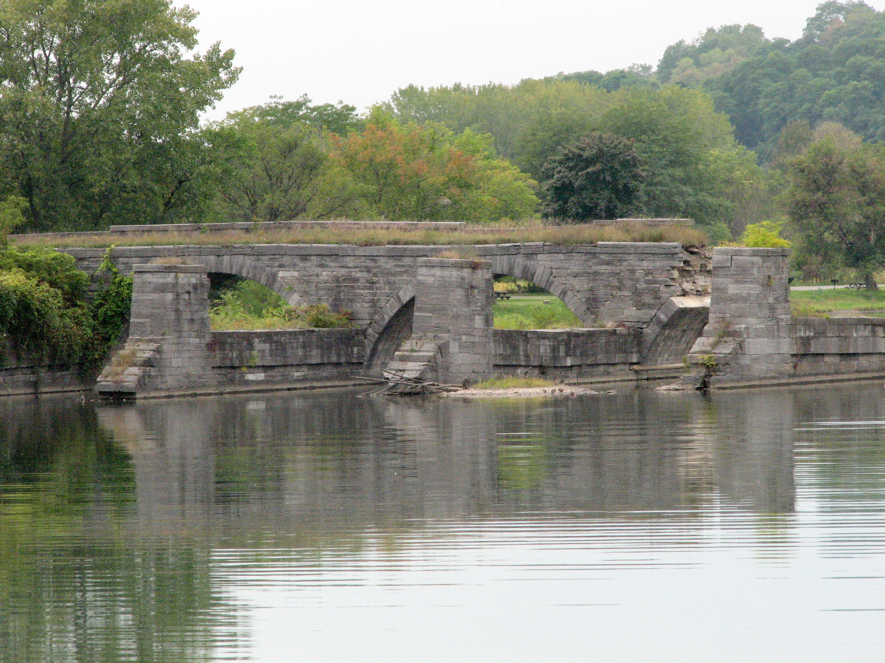 Amsterdam New York west of Albany, an old mill town once known for carpets and cabbage patch dolls and Kirk Douglas